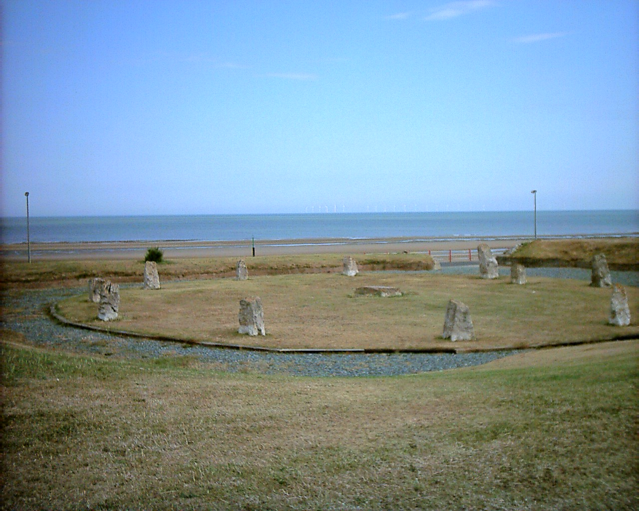 Stone circle of the National Eisteddfod at Rhyl, North Wales.